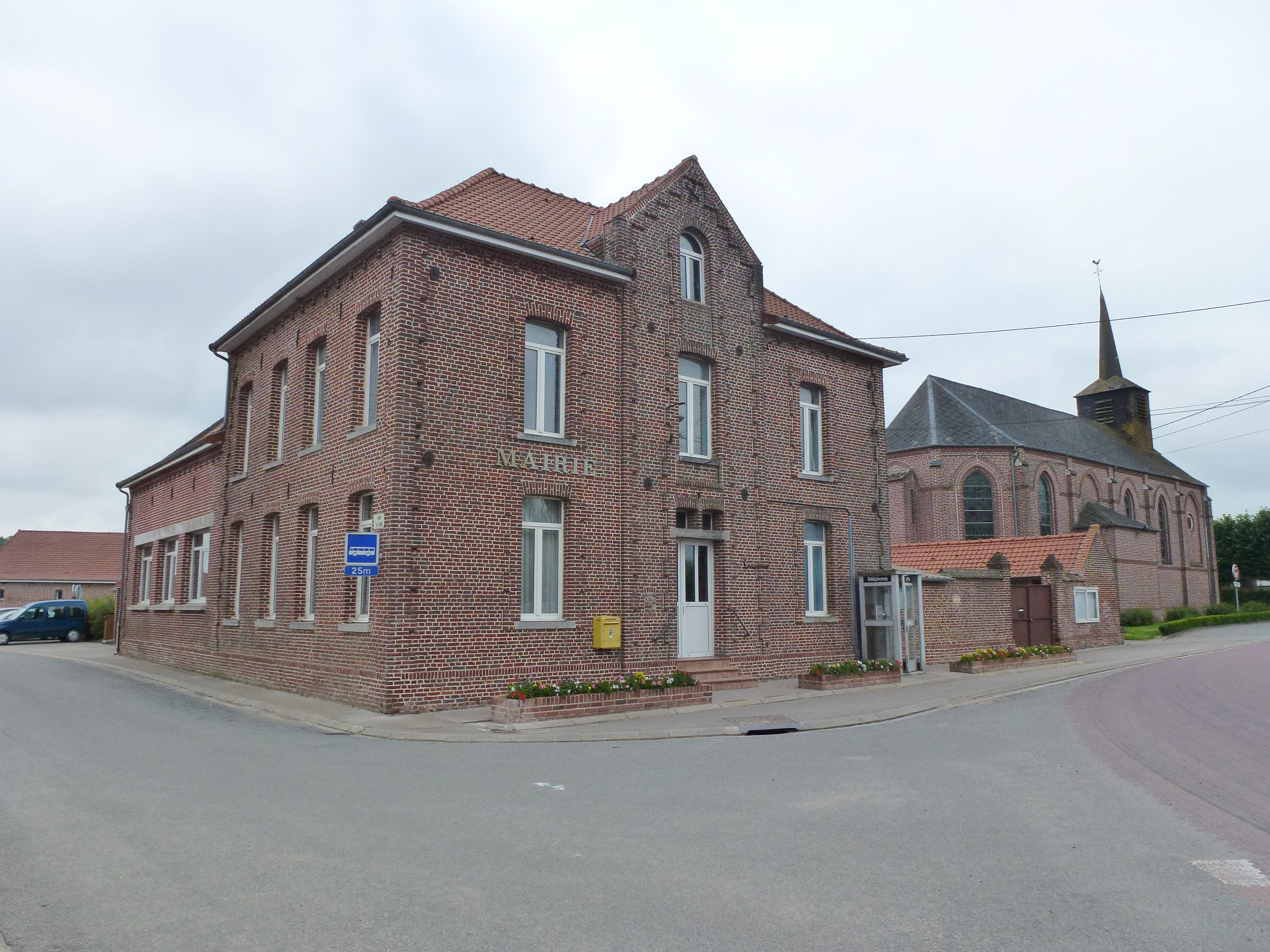 Westrehem (Pas-de-Calais, Fr) mairie et église